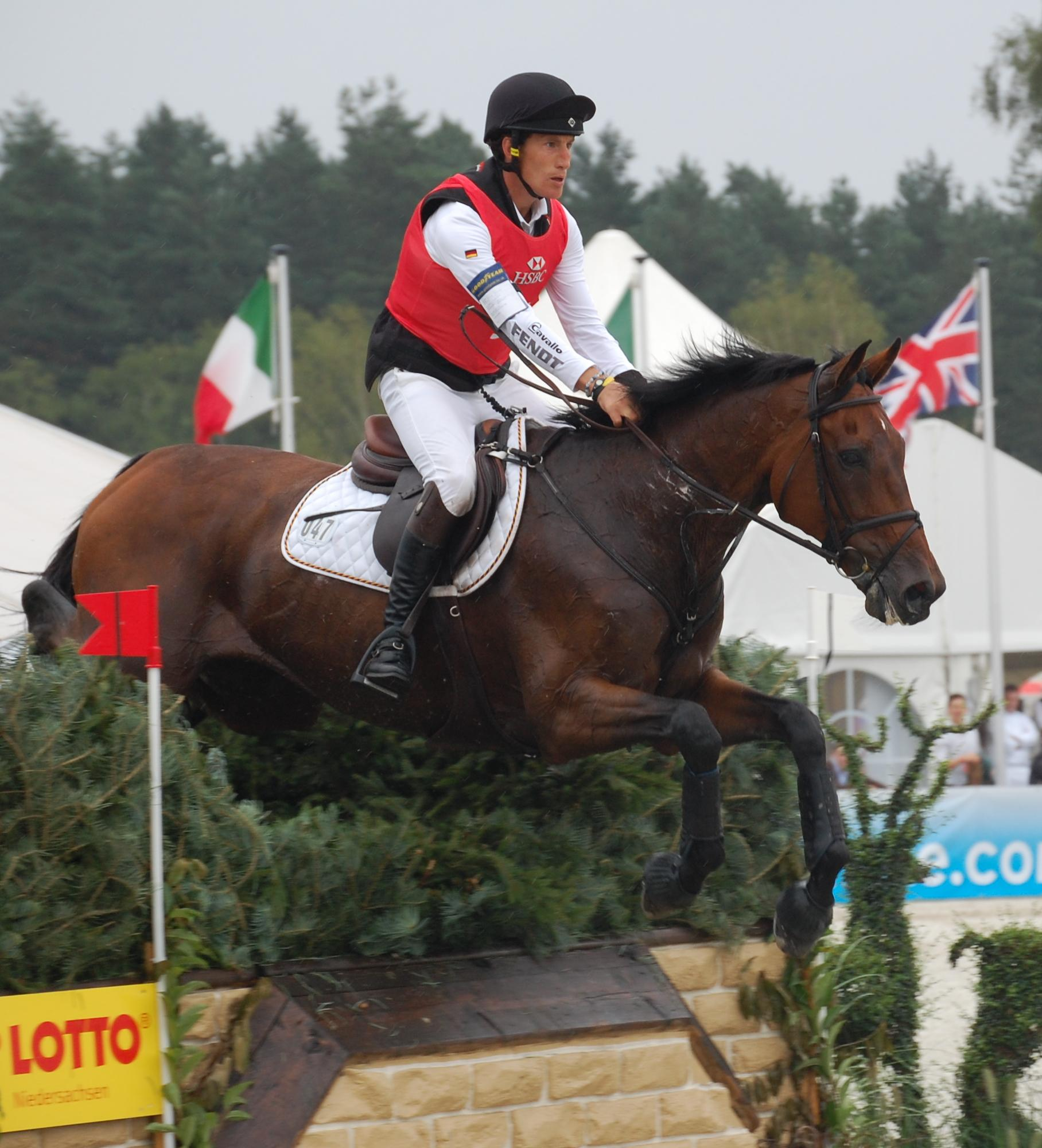 German rider Dirk Schrade and King Artus, cross-country phase, 2011 European Eventing Championship, Luhmühlen